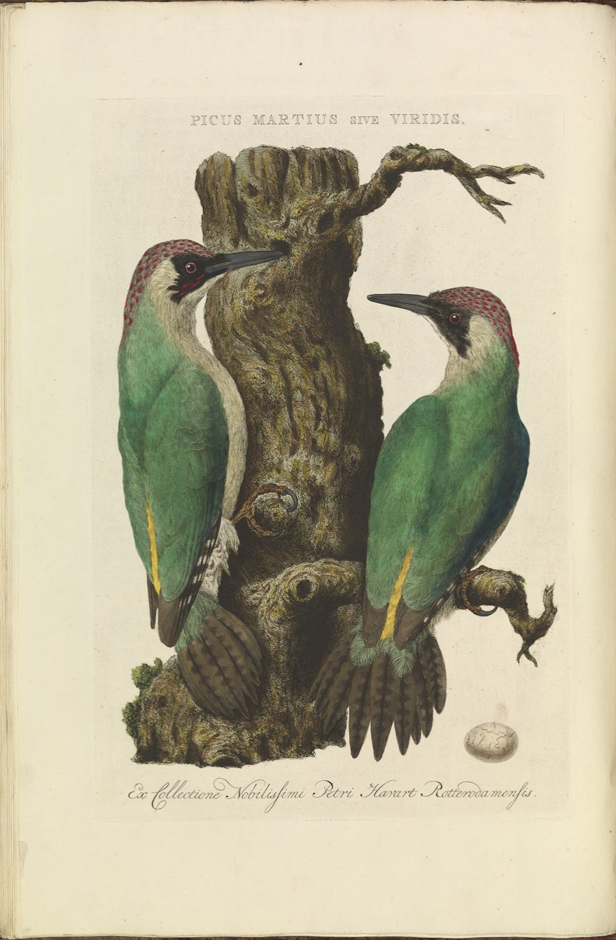 Plate 23 from the Nederlandsche vogelen by Nozeman and Sepp.